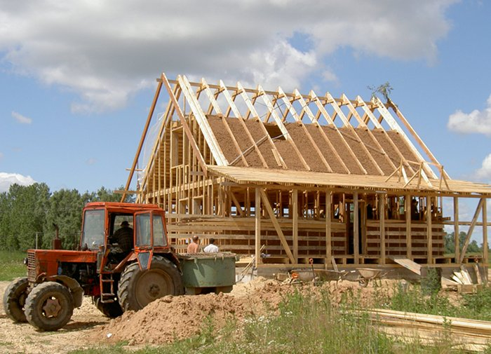 Shell construction of a house built in Stari-Lepel for a family, who will be resettled from the contaminated south-east area of Belarus to non contaminated areas in Belarus.The houses are built in close collaboration of the German charitable society Heim-statt Tschernobyl and the Belarussian organisation Oeko Dom.